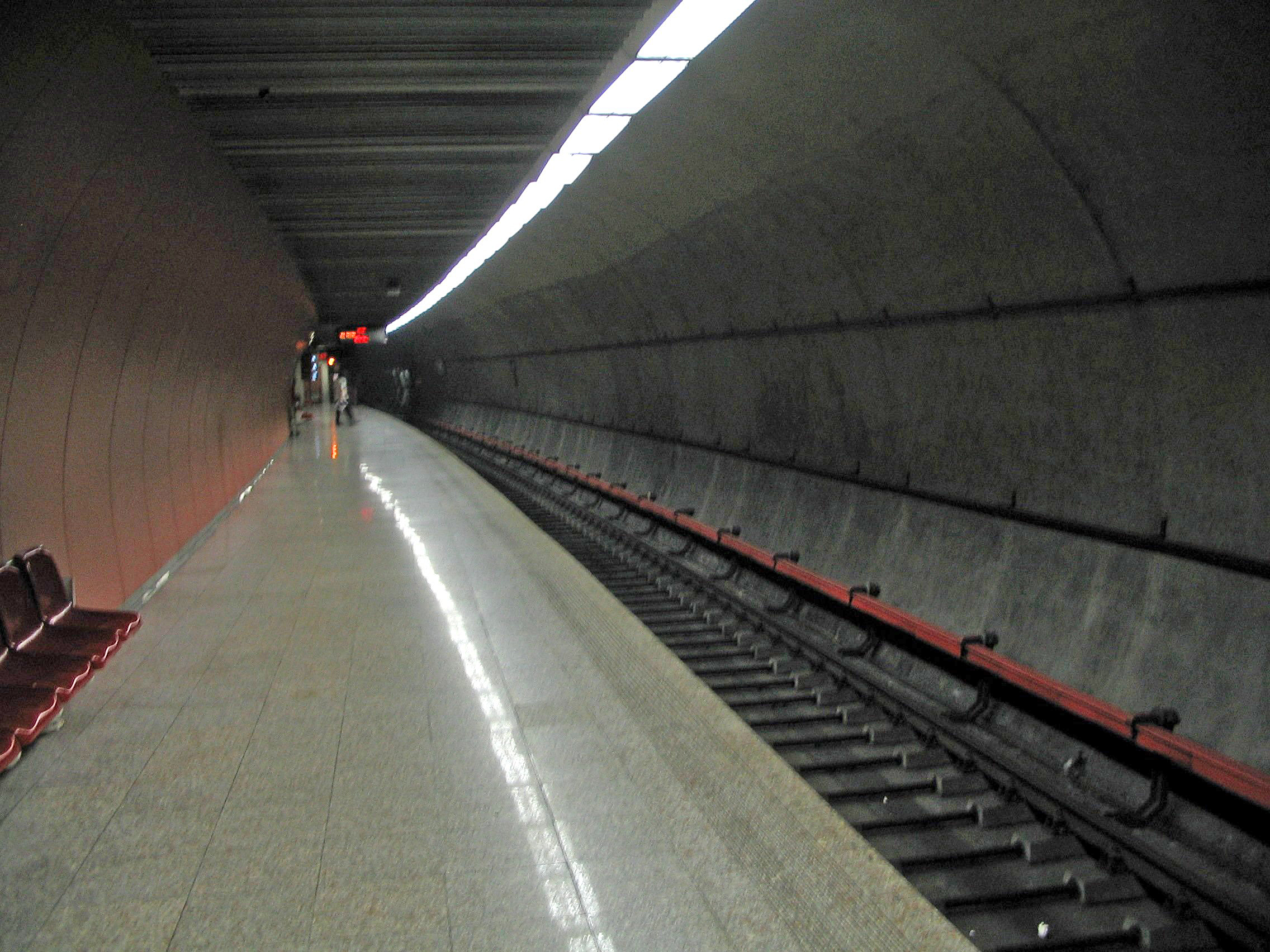 M4 southbound platform of the Basarab Metro station in Bucharest, Romania